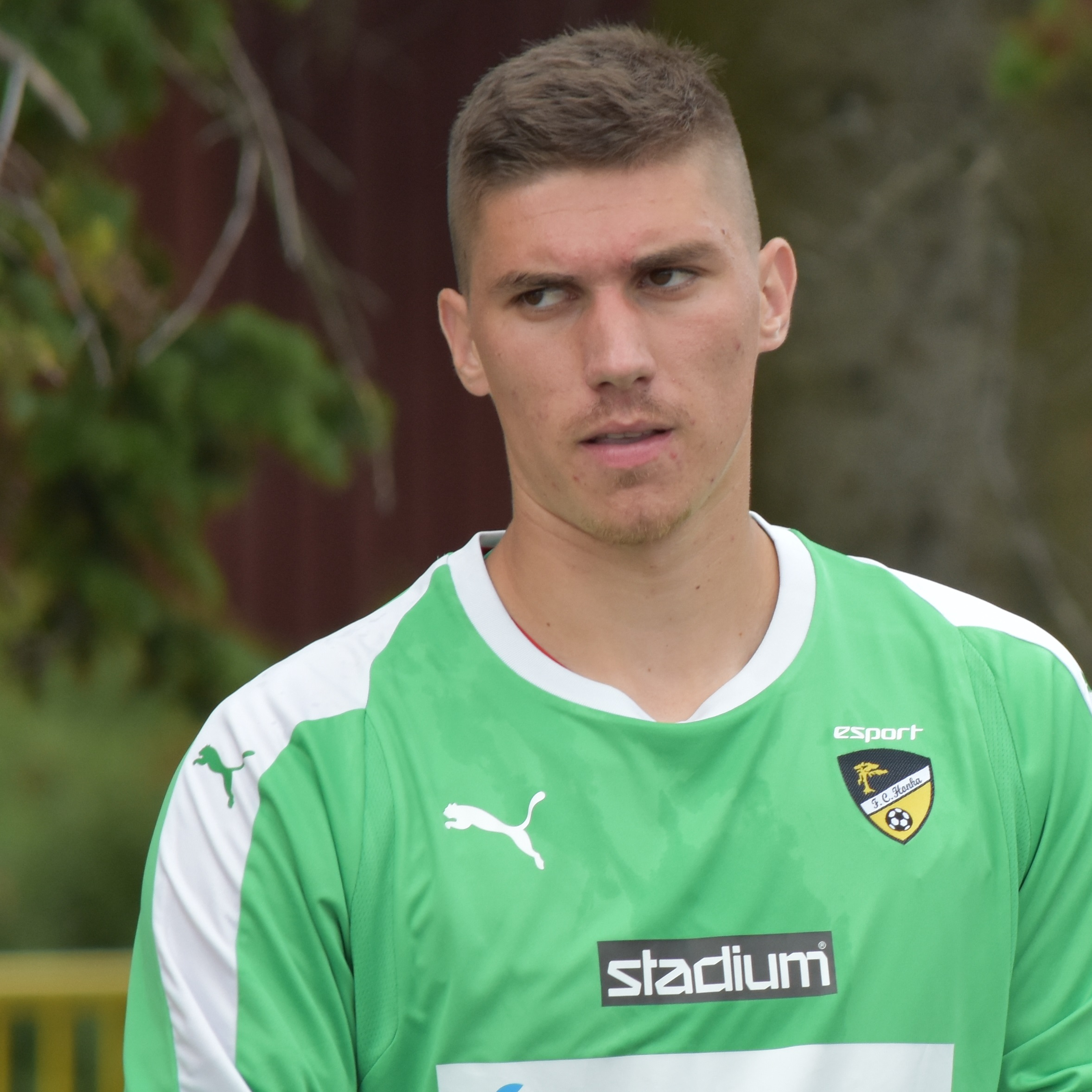 Association football goalkeeper Davor Taleski (FC Honka)